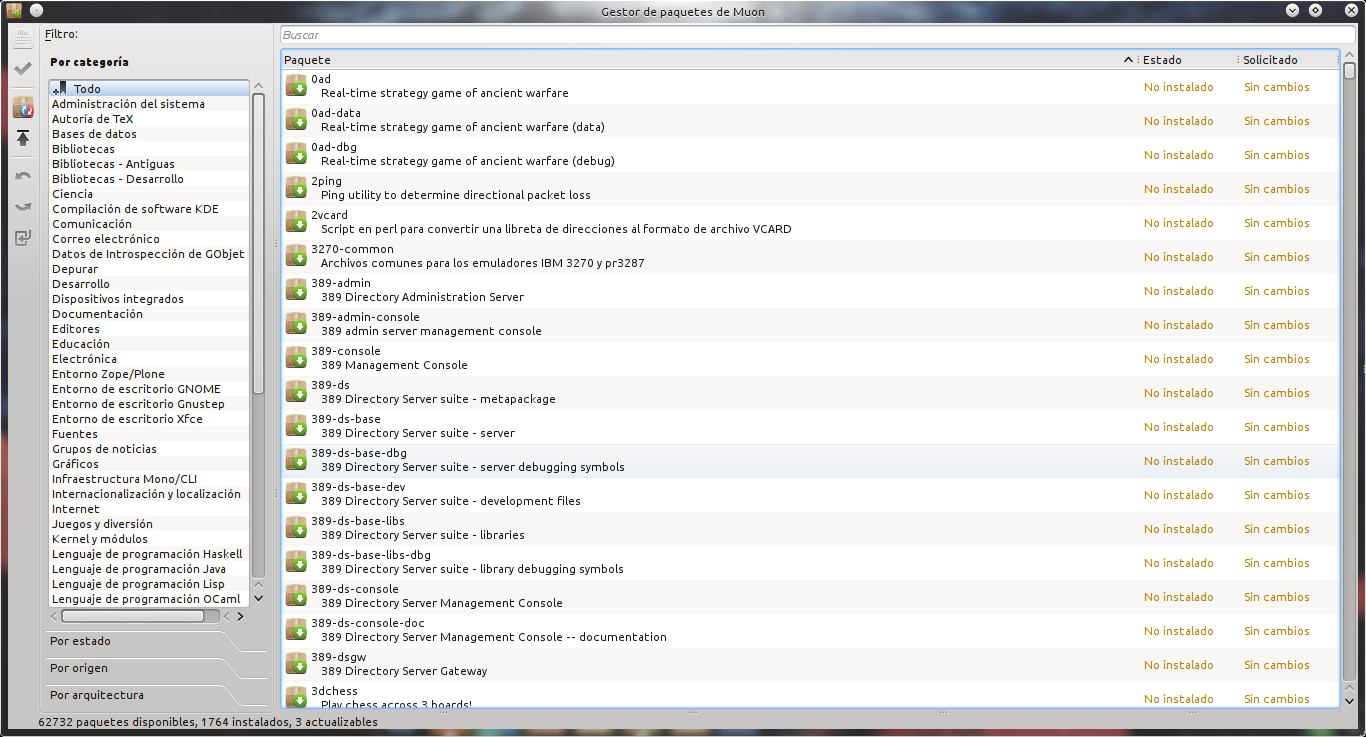 Screenshot of Muon package manager in Kubuntu 12.10